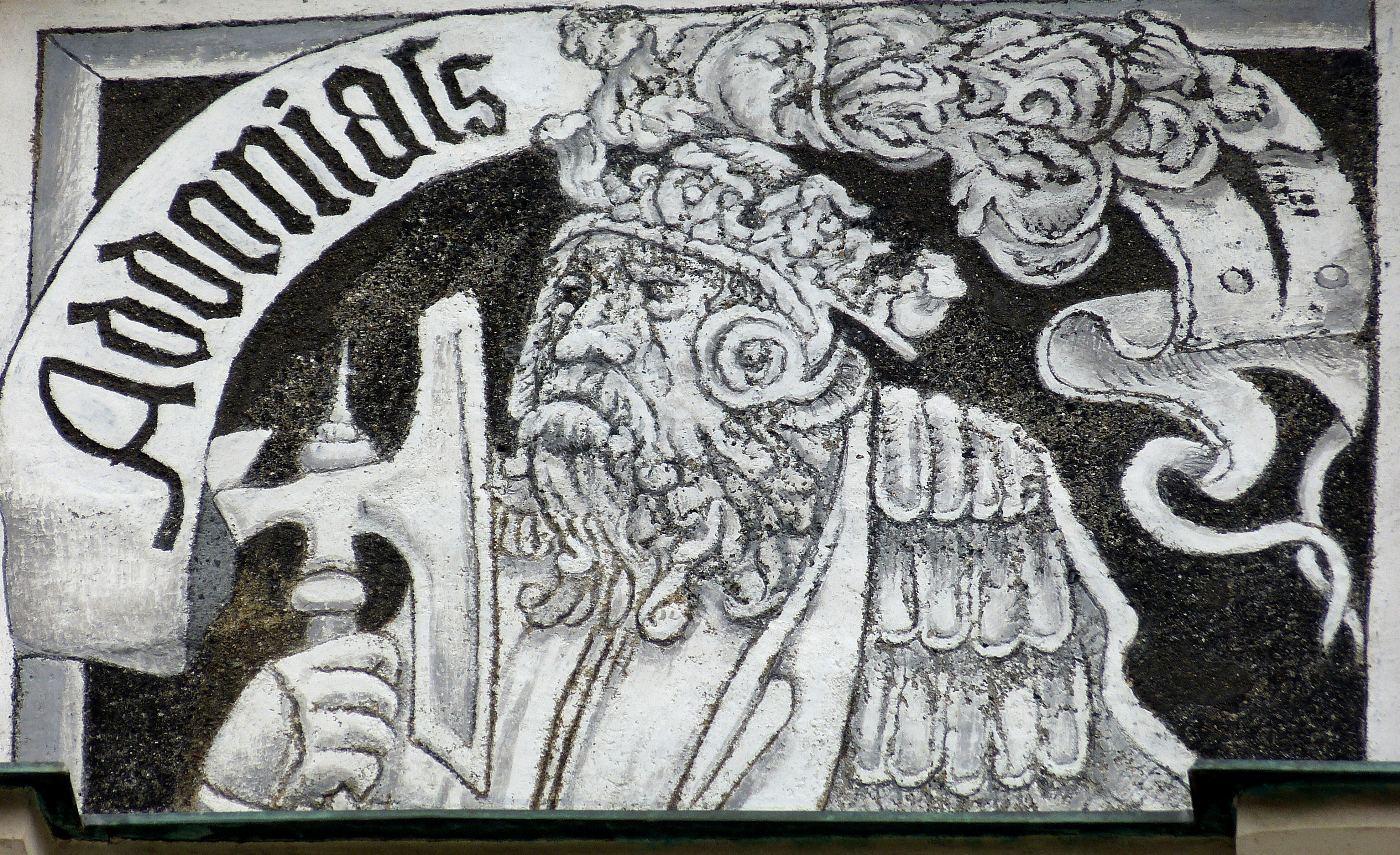 Telč ( Czech Republic ). Central square, house 15 with sgrafitto-facade ( 1555 ) - detail: Gable showing sgrafitti with heroes of the antiquity - Addonias.